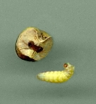 own image Paul venter 20:08, 28 July 2006 (UTC)